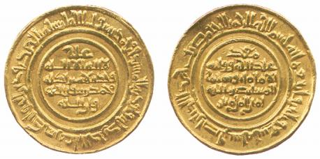 Dinar Fatimid al-Mustansir 1036-1094 4.05g